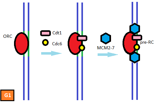 Schematic depiction of the licensing of an S. cerevisiae replication origin in the prereplicative state.